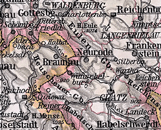 Detail from a map of Silesia.